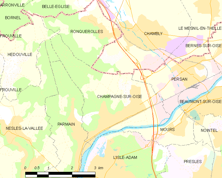 Map of French municipality Champagne-sur-Oise